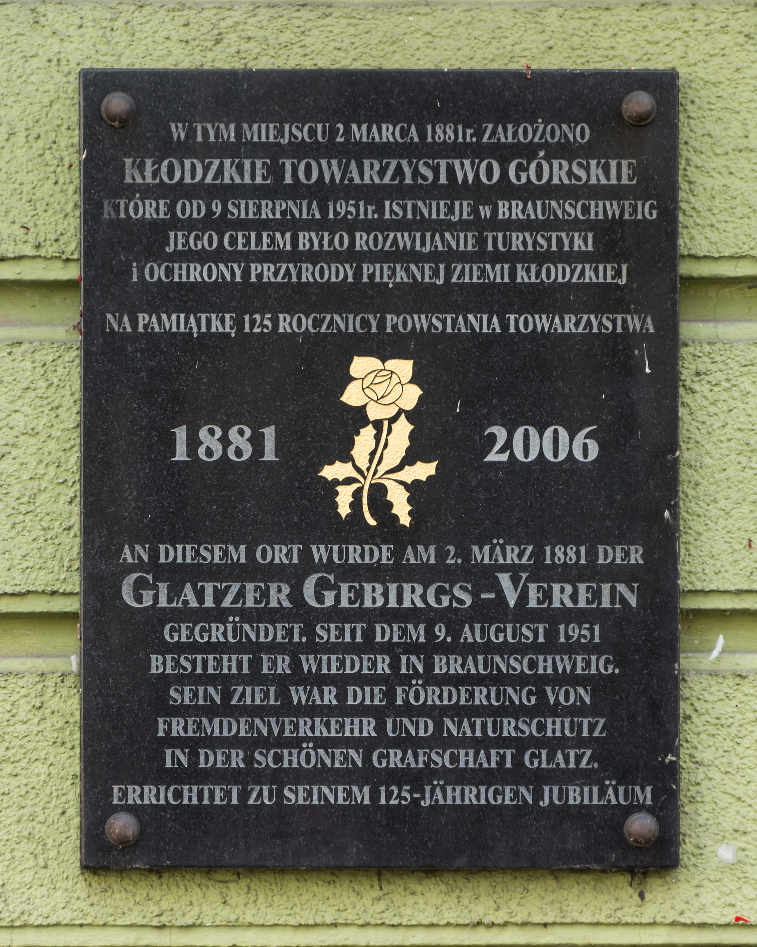 4 Bolesława Chrobrego Square in Kłodzko, Glatzer Gebirgsverein plaque